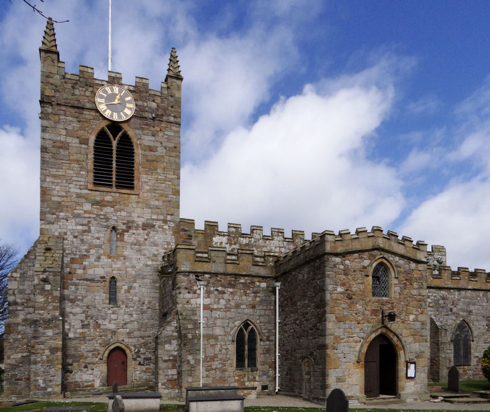 St.Mary & St.Nicholas Church Beaumaris, built mostly in the 14th century.